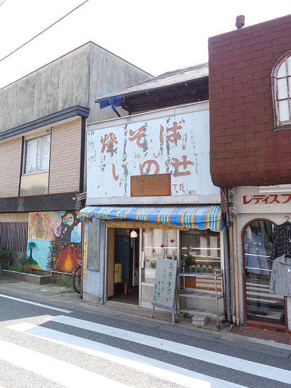 Side Dish Arita Building